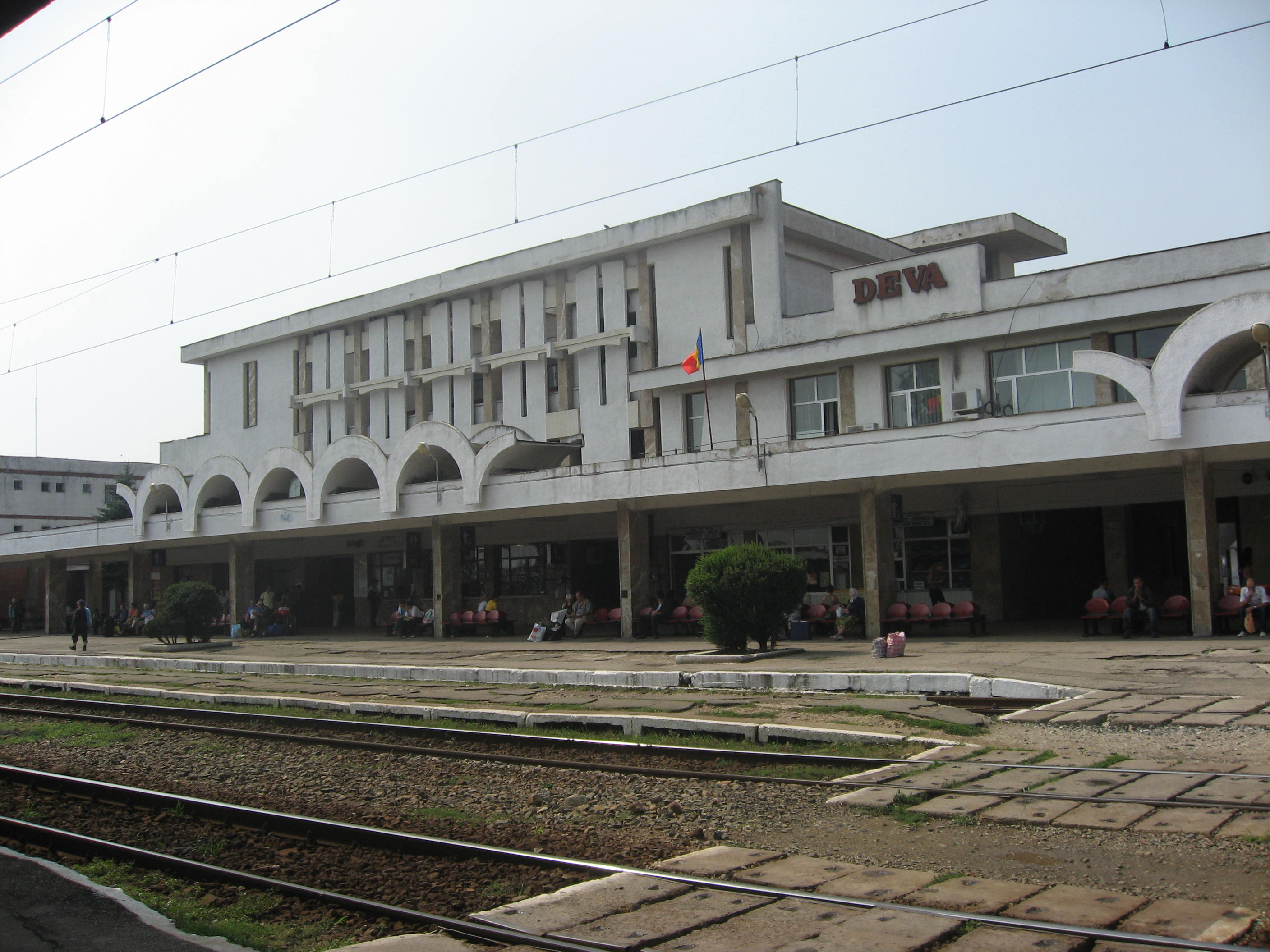 Deva, Hunedoara county, Romania: The Railway Station